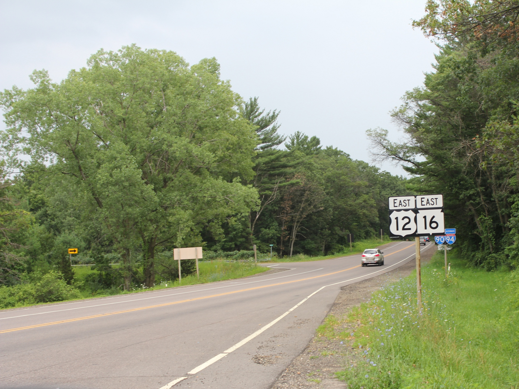 The sign for U.S. Route 12 / Wisconsin Highway 16.